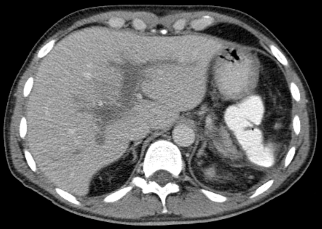 Portal vein thrombosis in computertomography